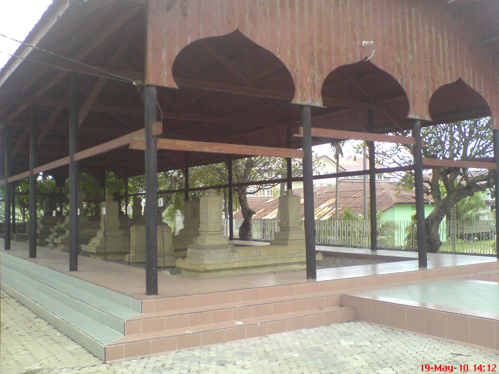 Kandang XII. Aceh sultans graveyard complex.